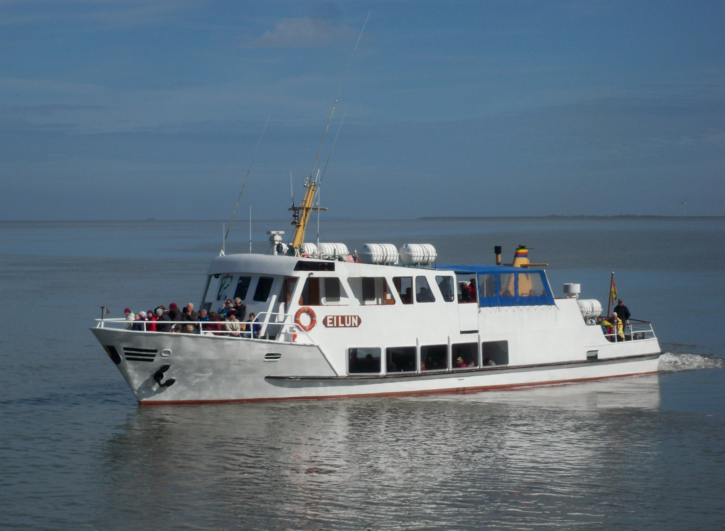 M/V Eilun, based at Wittdün auf Amrum, used for trips, built in 1970, near Hooge harbour